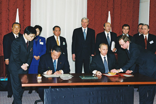 IRKUTSK. Signing Irkutsk statement on subsequent peace-treaty talks.